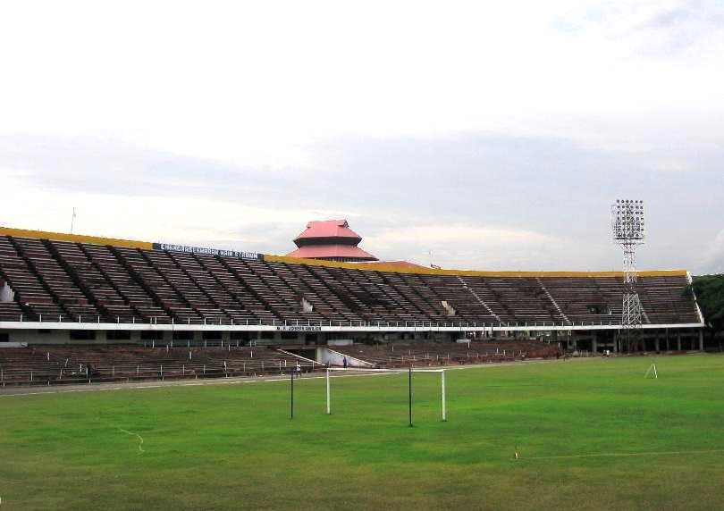 PHOTOGRAPHER : Rajith Mohan